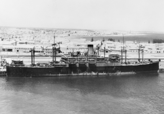 Aerial starboard side view of the American transport Holbrook which brought US troops to Australia as part of the Pensacola convoy in 1941-12. She carried US troops to Darwin in 1942-01 and repatriated Australian troops from the Middle East as part of Convoy SU.4, a component of the STEPSISTER movement in 1942-05.